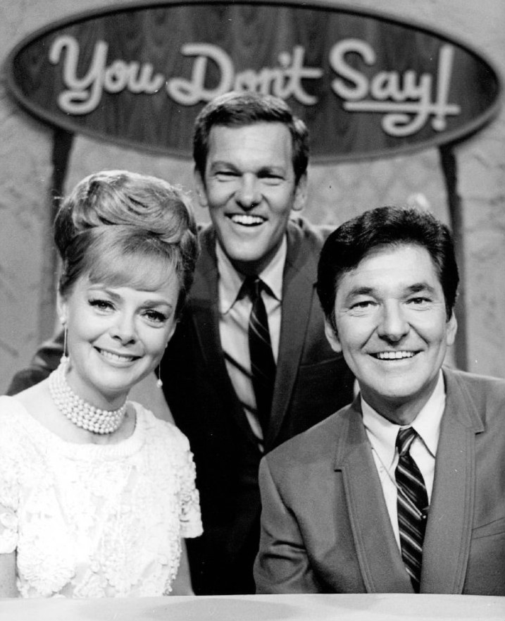 Publicity photo of Tom Kennedy, June Lockhart and Jack Narz from the television game show You Don't Say!. Kennedy and Narz are brothers.